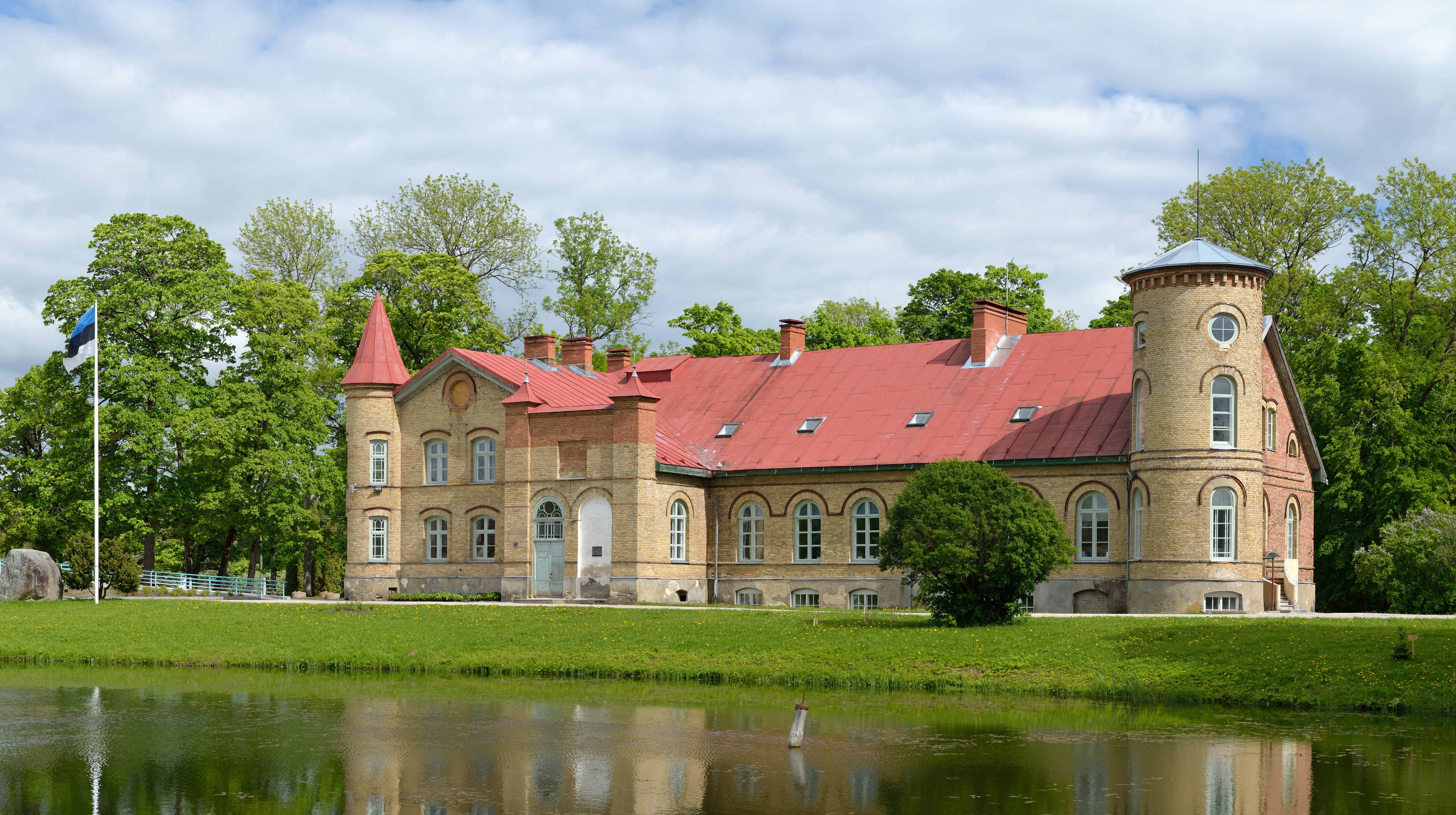 Lasila manor main building